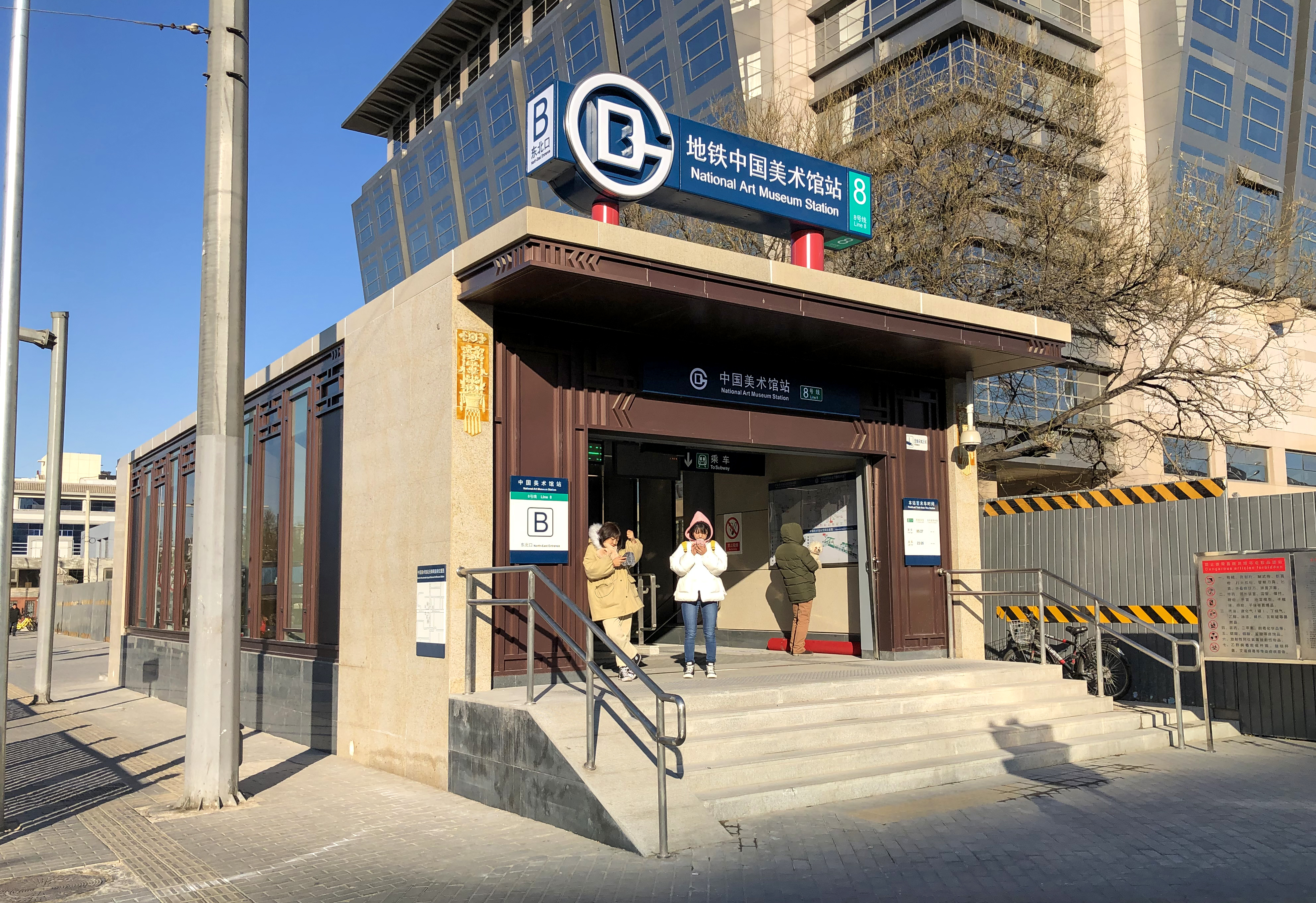 And this one serves Longfu Temple.